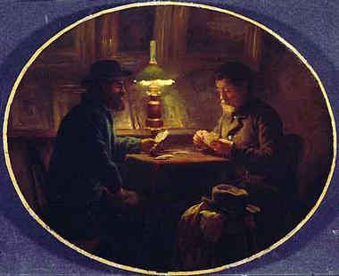 Card Game at "le Père Martin"